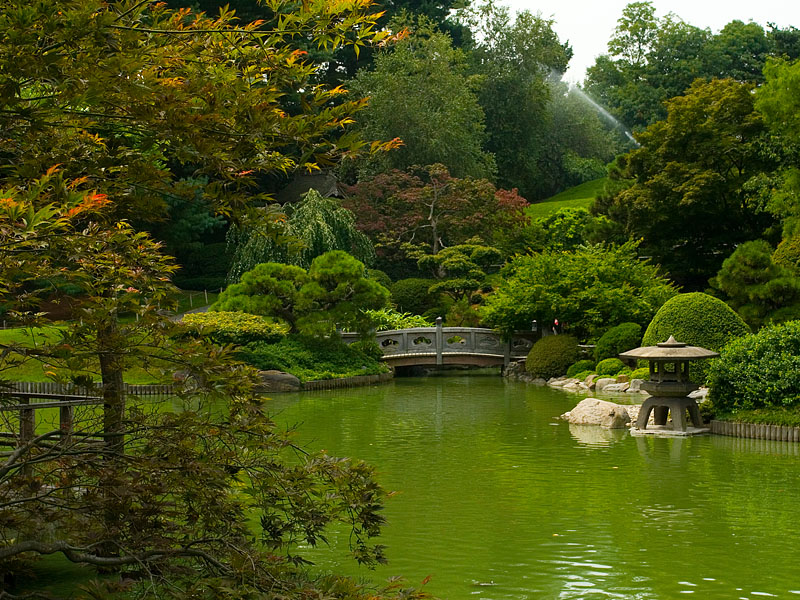 Japanese Hill & Pond Garden at the Brooklyn Botanic Garden